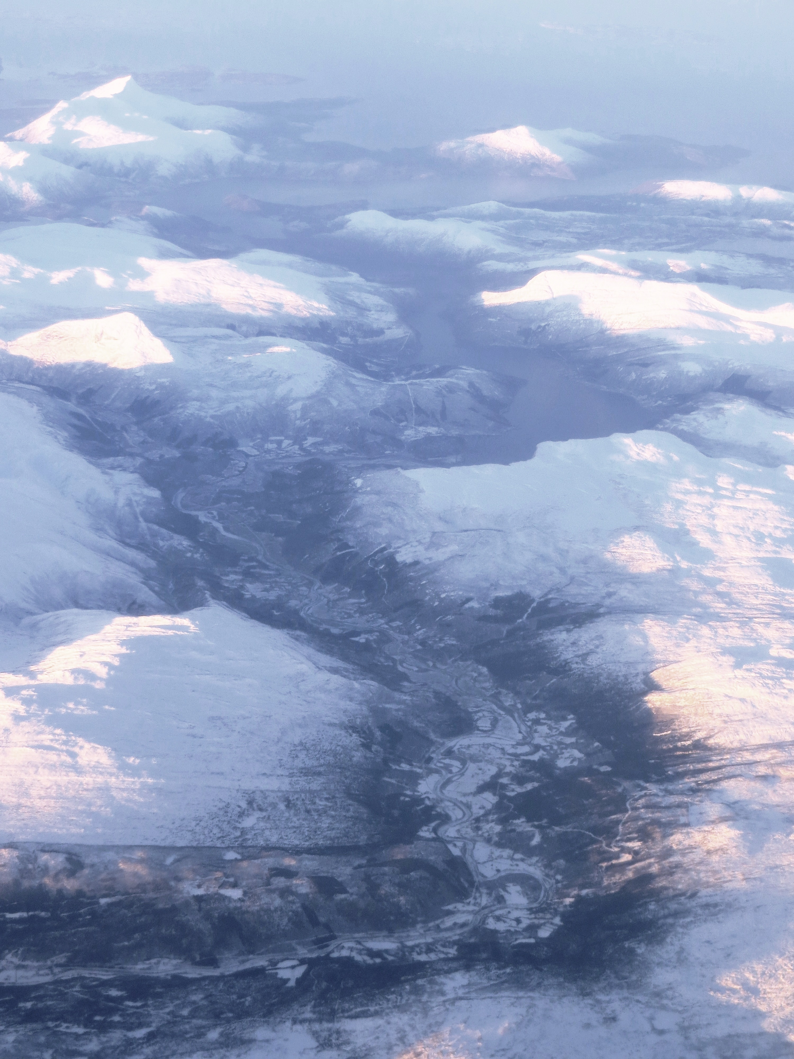 Aerial view from east toward west over Beiarn municipality, in south.central Nordland county, Norway. This is the valley Beiardalen, at the end of which one will find Beiarn township.